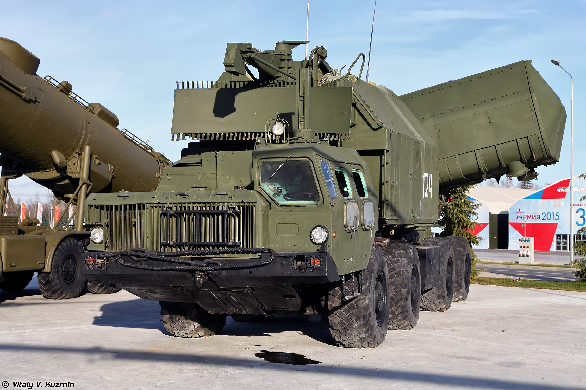 S51 TELAR of 4K51 Rubezh coastal missile system